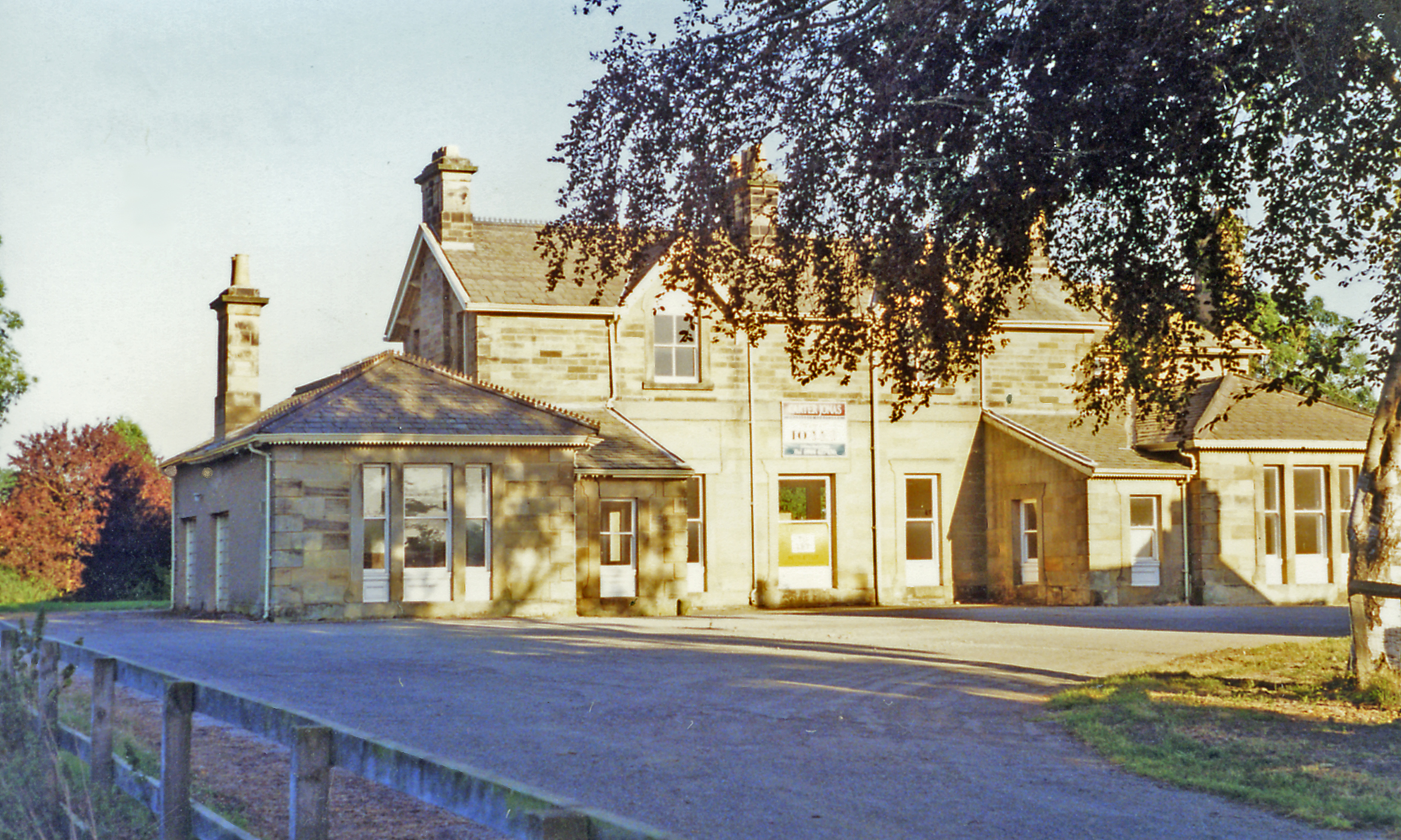 Helmsley station, remains 1995. View NE, towards Pickering: ex-NER Gilling - Pickering line. This station, well preserved privately, was closed along with the line from 2/2/53 (passengers), 10/8/64 for goods